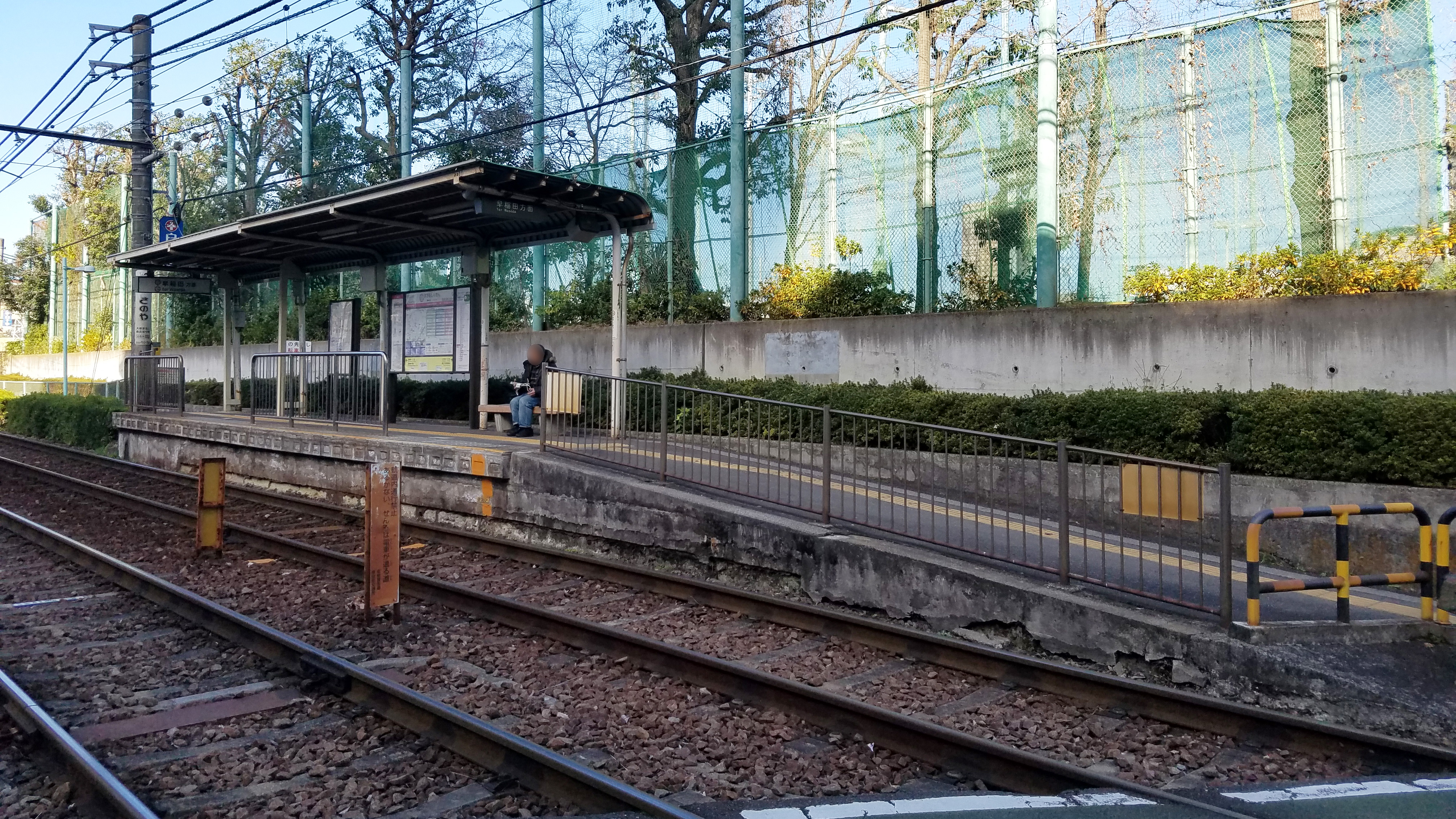 The Waseda-bound platform at Sugamoshinden Station on the Toden Arakawa Line(Tokyo Sakura Tram) in Toshima city, Tokyo, Japan